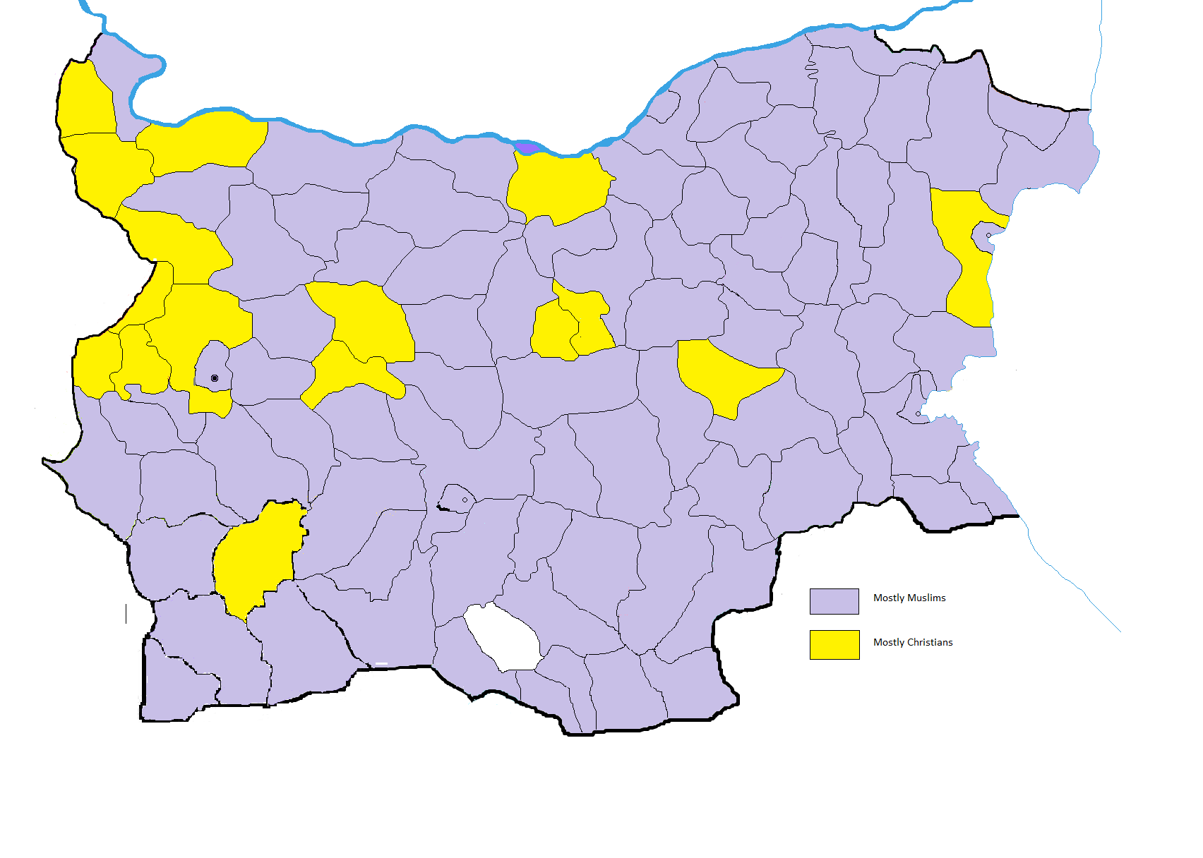 Christianity versus Islam in Roma in Bulgaria according to the 1946 census before they switched mostly to Christianity.